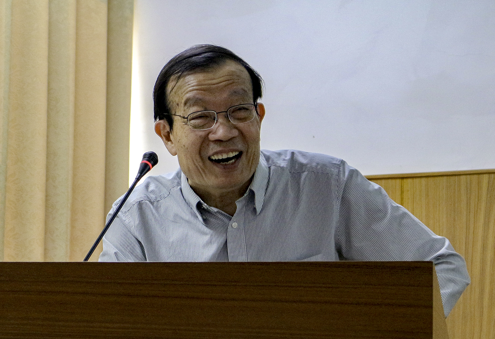 A photograph of Professor C.-T. James Huang, taken during a lecture.